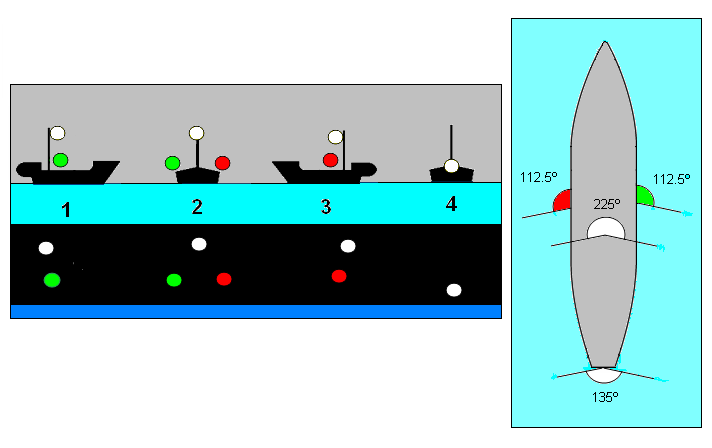 Navigational lights for mechanical powered vessel, length less 50 meters